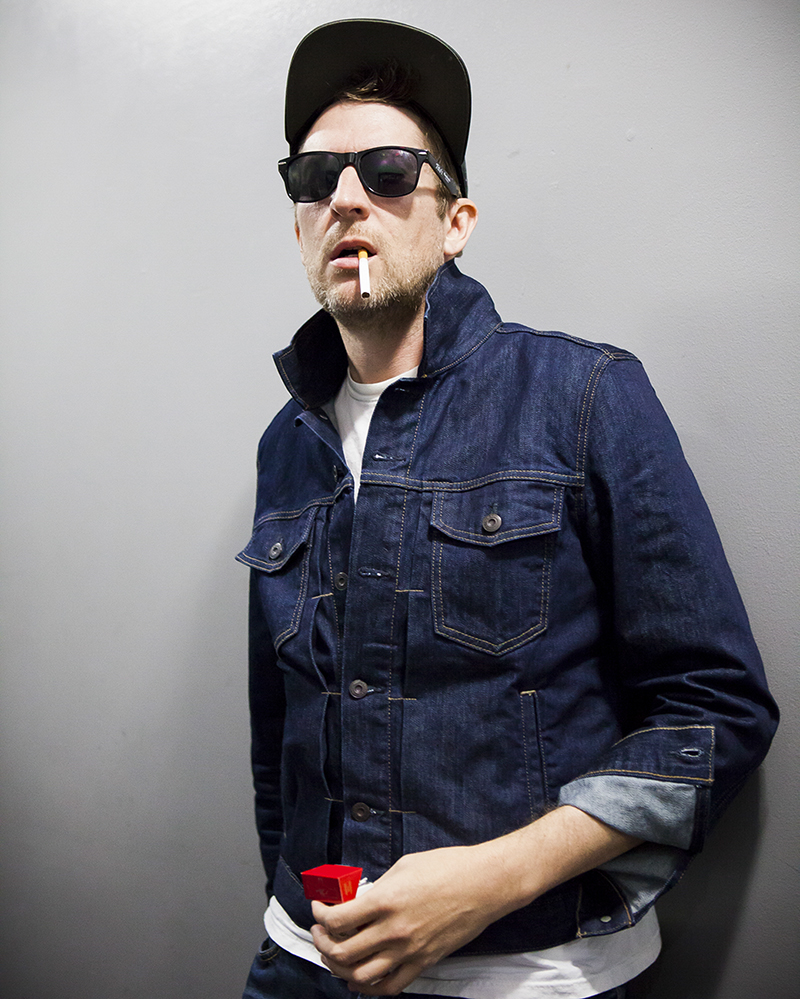 Scott Aukerman at Never Not Funny’s Pardcastathon 2014 - Photo by Liezl Estipona